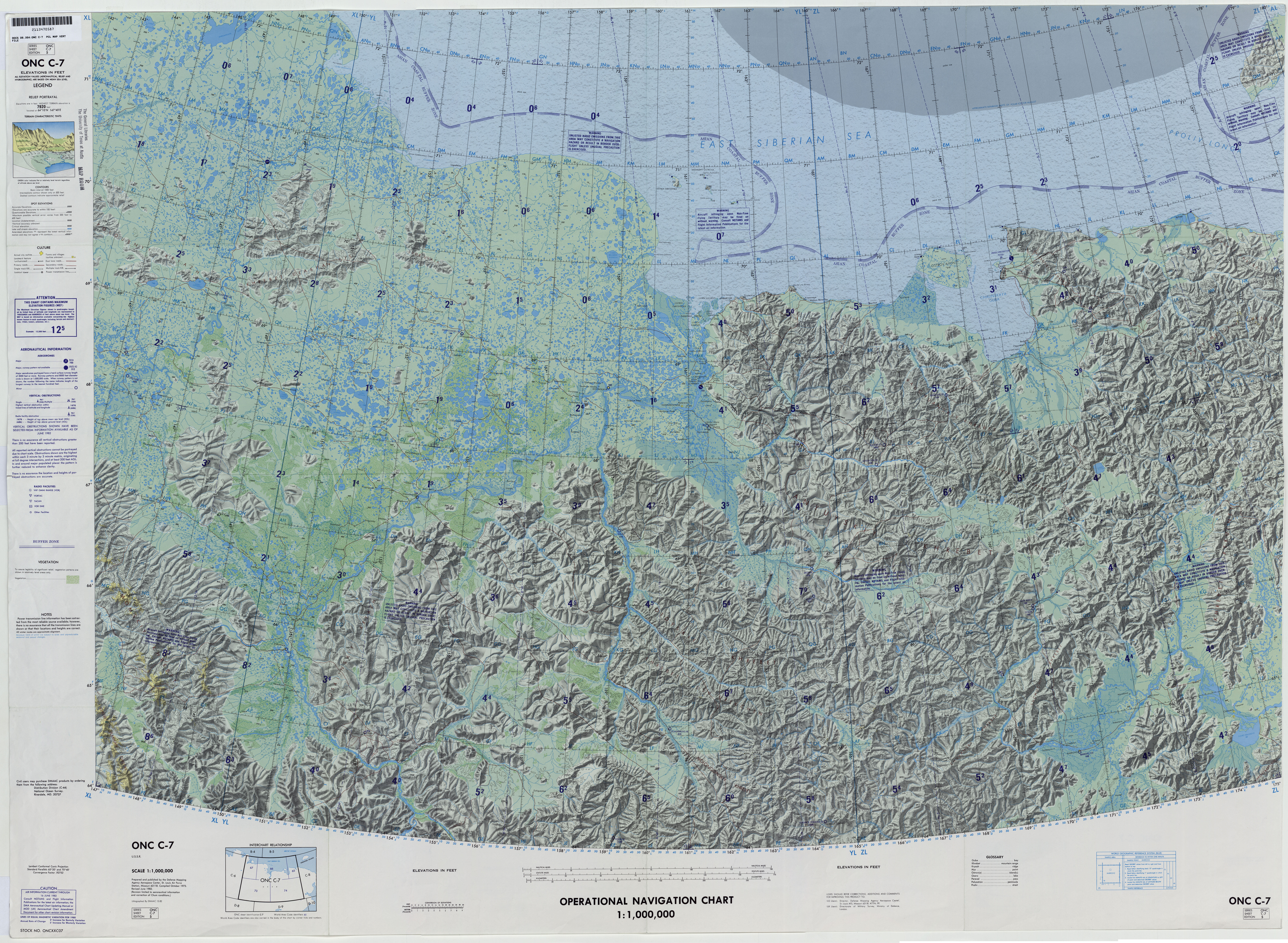 1:1,000,000 scale Operational Navigation Chart, Sheet C-7, 5th edition. Covers U.S.S.R. Lambert Conformal Conic Projection. Standard Parallels 65 20N and 70 40N. Center longitude 161E.